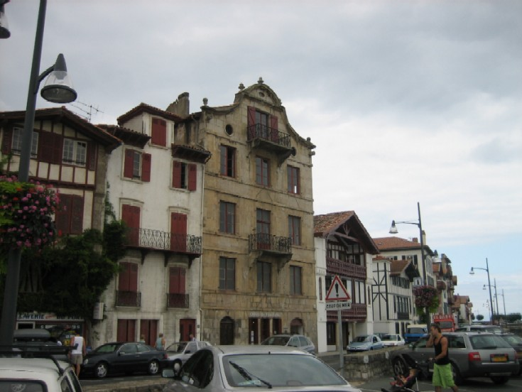 House where Maurice Ravel was born, in Ciboure, Pyrénées-Atlantiques, France